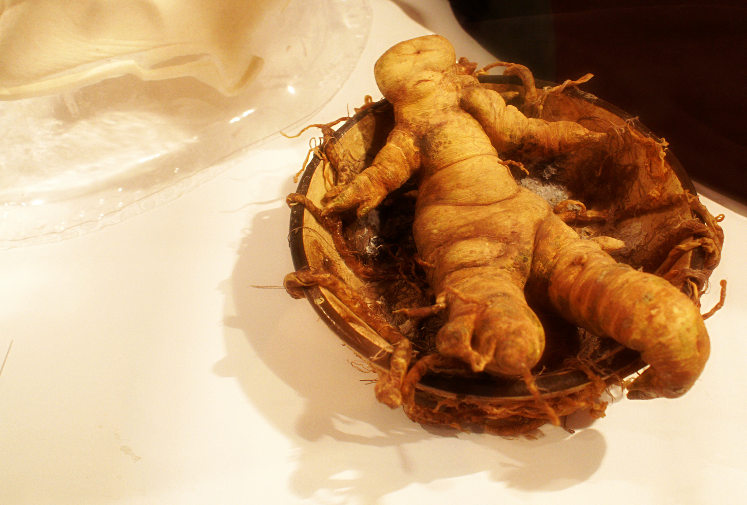 Una Mandragora Festival Sitges 2006 This is not a real mandragora. This was created as part of the props of the film "Laberinto del Fauno"